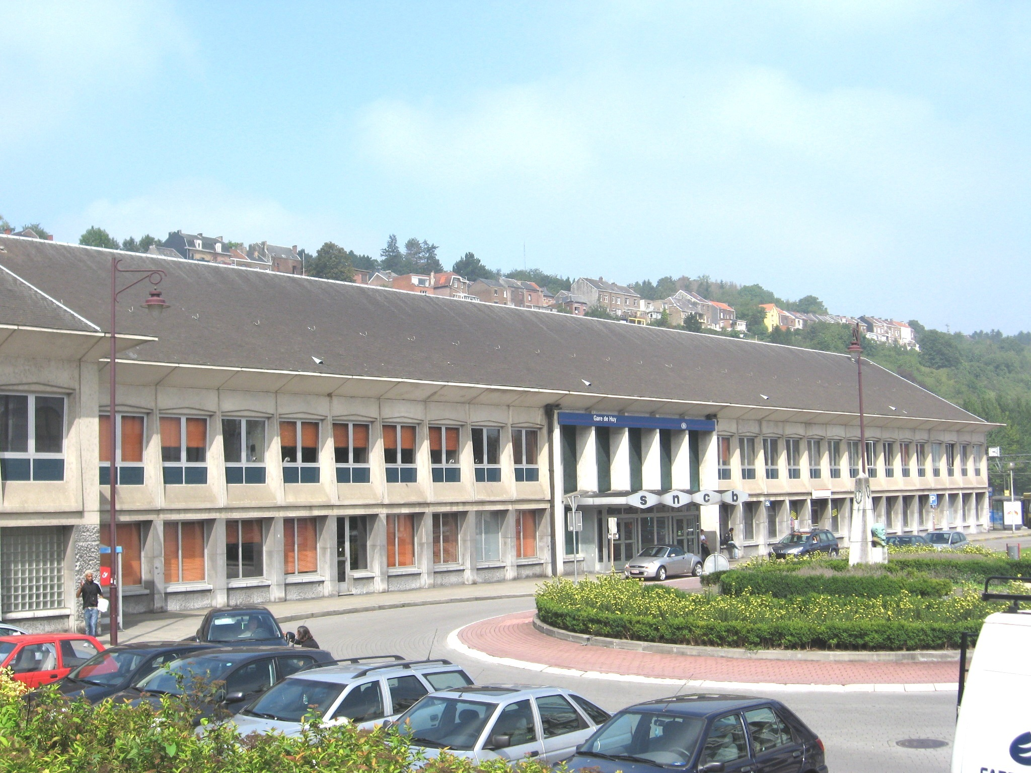 Train station of Huy Nord, Liège, Belgium